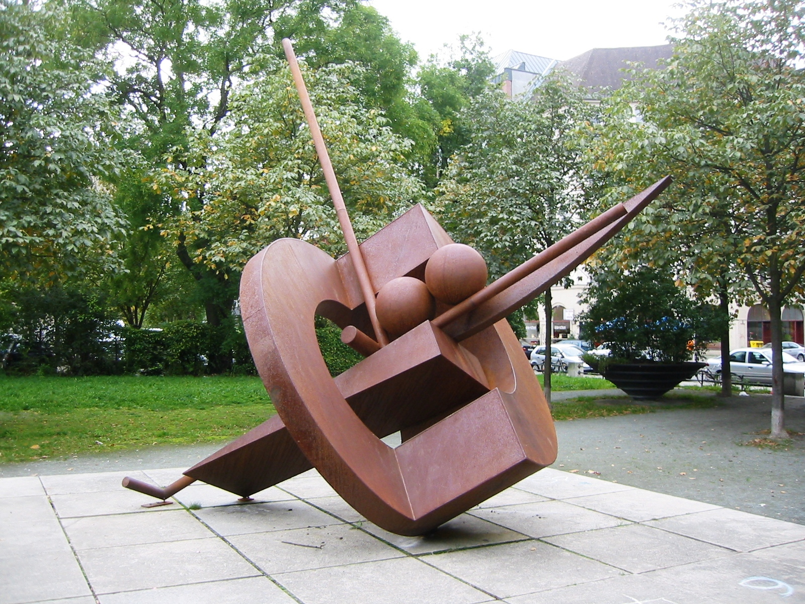 Steel sculpture "Tilted Donut Wedge with Two Balls" by Fletcher Benton in Bessel park in Berlin-Kreuzberg. The work is a gift of the artist to the city of Berlin. Benton presenting a series of works in the Georg-Kolbe-Museum and the city surrendered on this occasion the work.